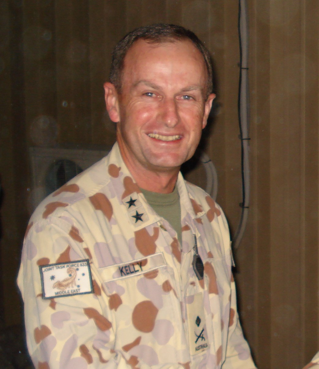 Major General Kelly at Kandahar in 2009 after medal presentations at Camp Baker.